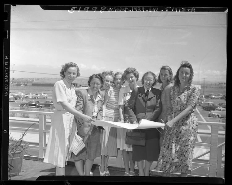 Powder Puff Derby participants in 1948. Group portrait of eight women pilots before they leave Palm Springs for 1948 Powder Puff Derby; Published caption: ALL SET -- Ready to leave Palm Springs Airport in a cross-country race to Miami are, from left, Mary Nelson, Jeanne d'Ambly, Dorothy Krovoza, Darlene Thurmond, Frances Nolde, Claire McMillen, Helen Greinke and Betty Loufek. The coast-to-coast "lipstick derby" is to end at Amelia Earhart Field, scene of all-women air show. Note about non-renewal of copyright: [1]